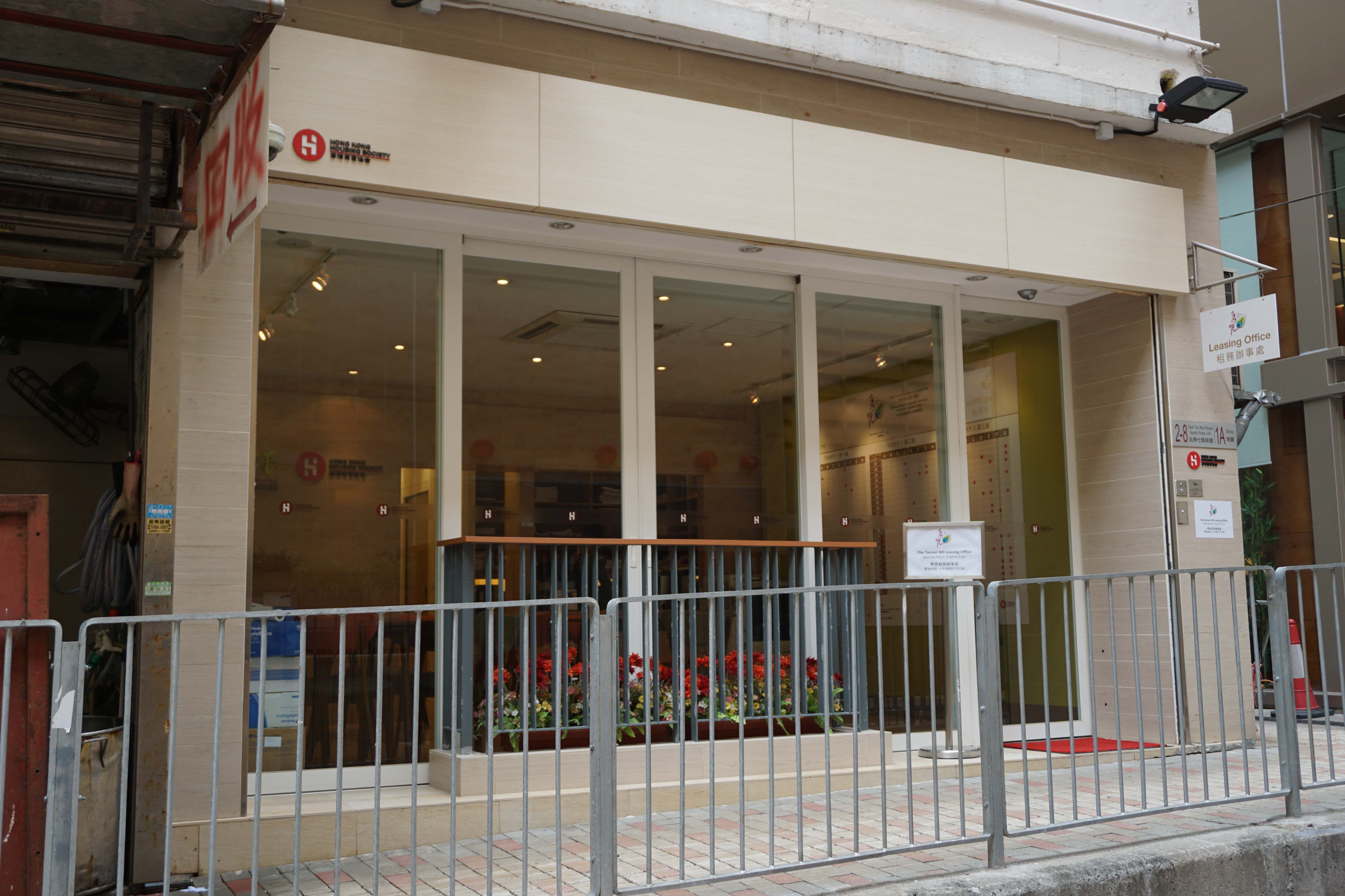 The Tanner Hill in North Point, Hong Kong.